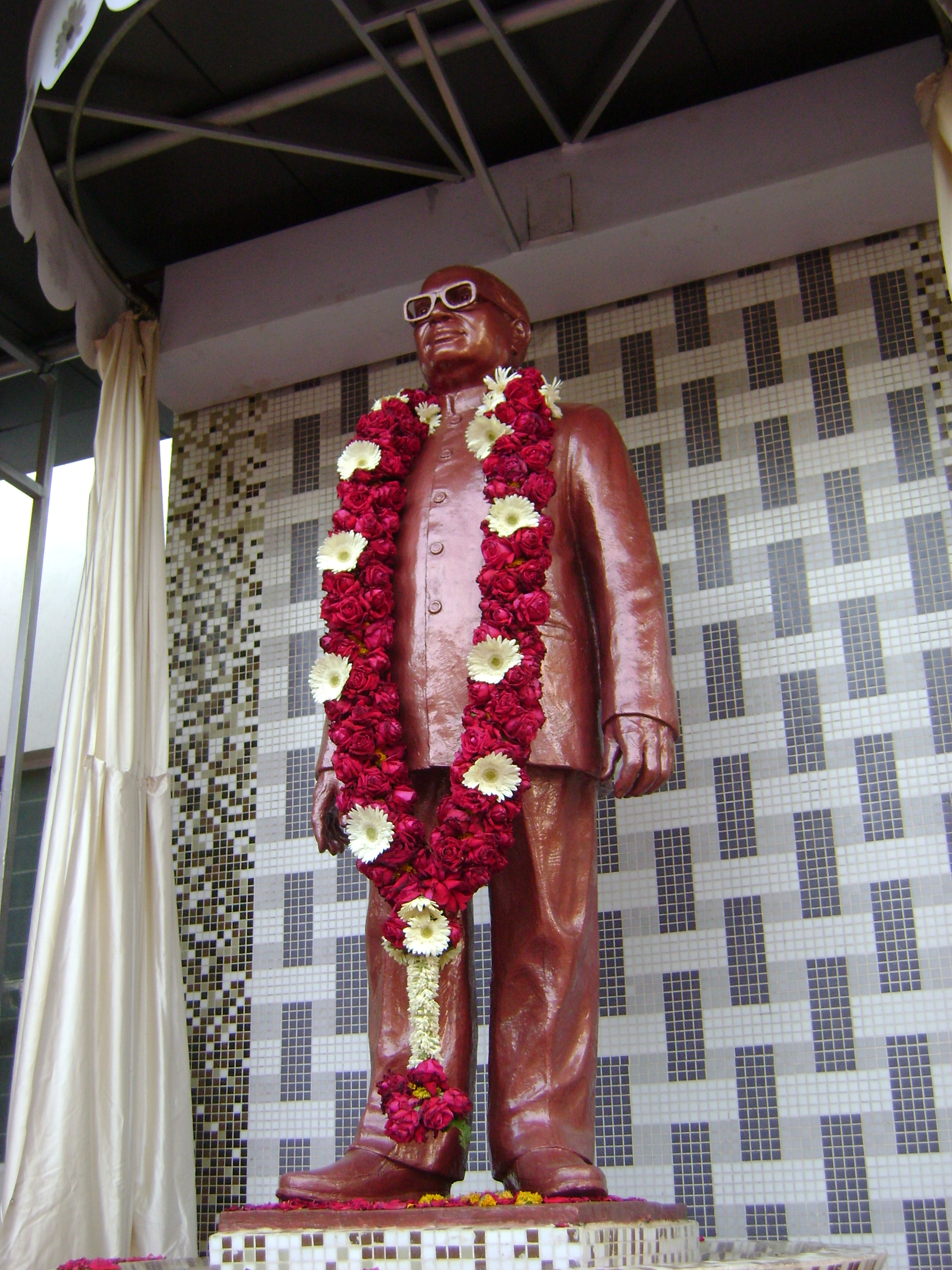 Inaugurated on 21.01.2013 at Sangli District Central Cooperative Bank